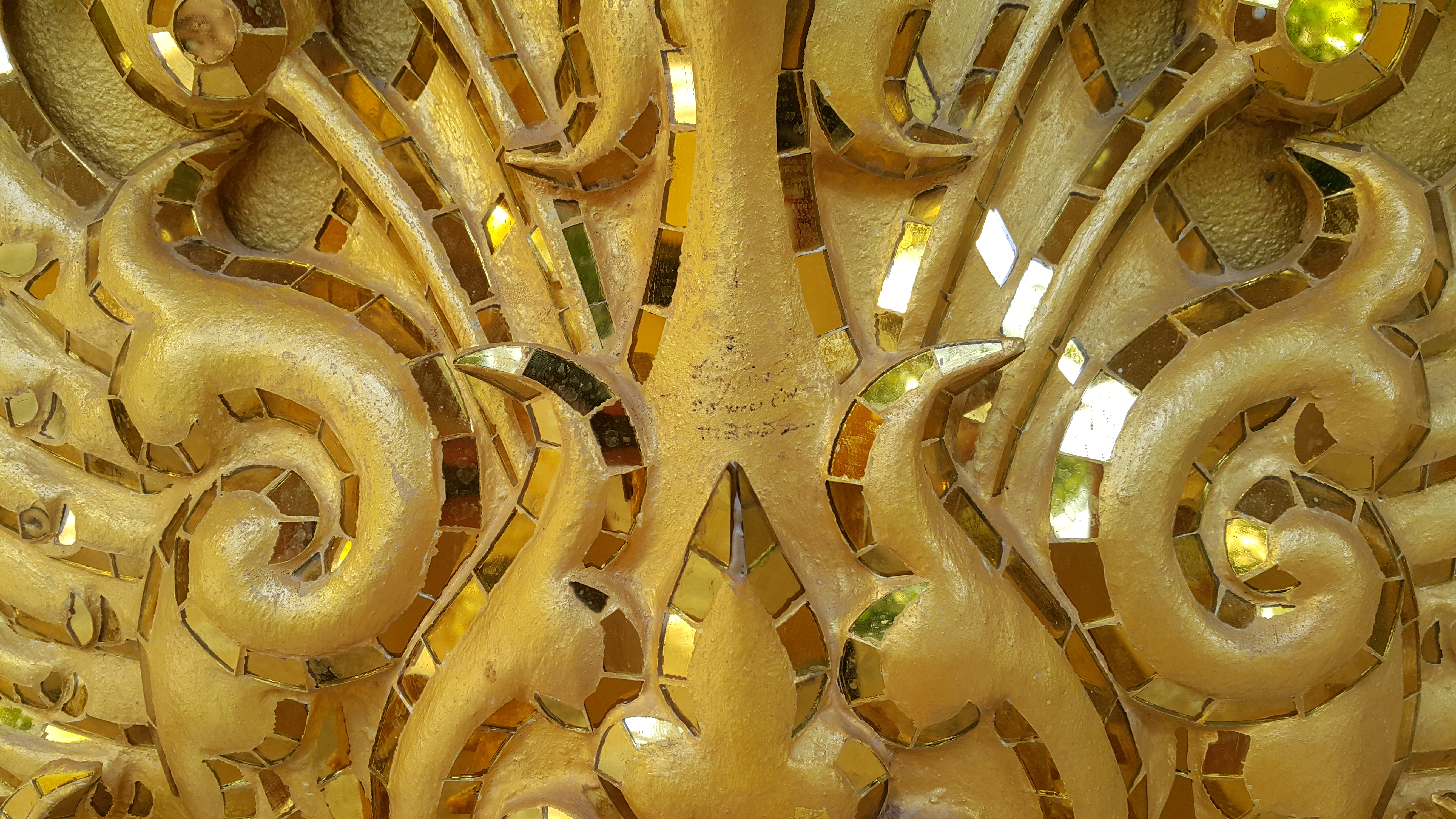 The signature of Chalermchai Kositpitpat on his work in Wat Rong Khun, Chiang Rai, Thailand